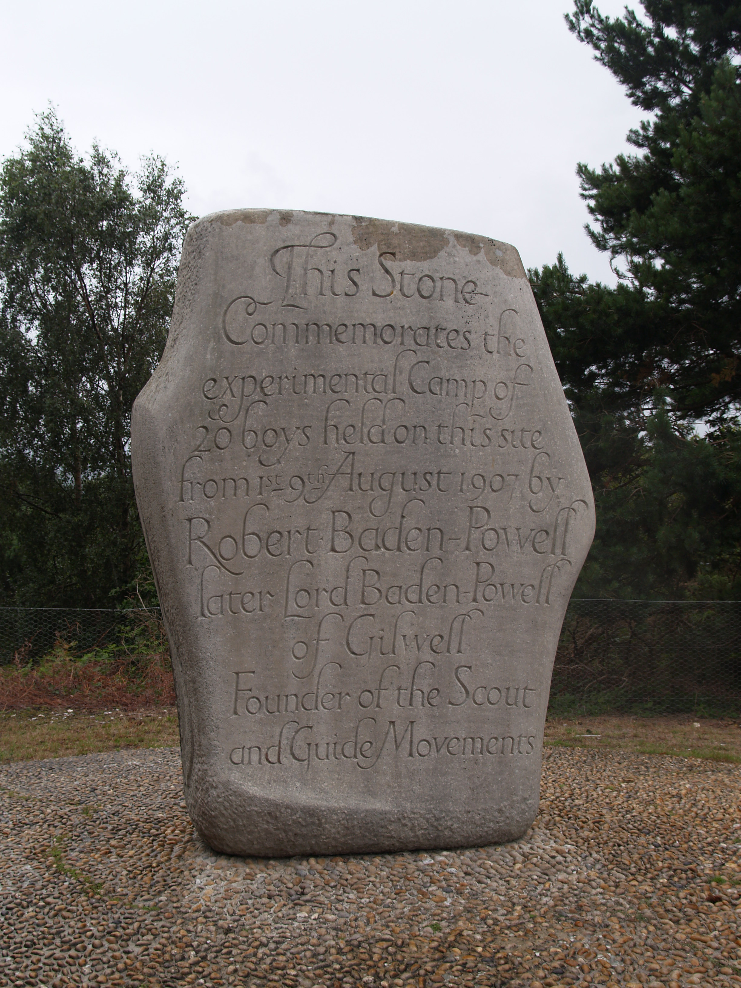 Brownsea Island Commerative Stone